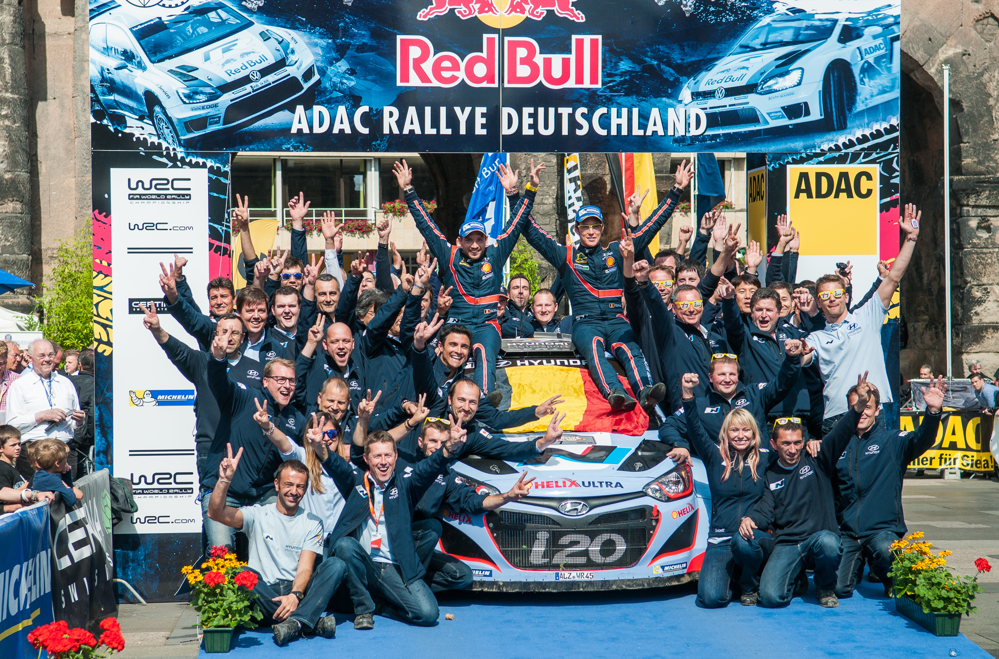 ADAC Rallye Deutschland 2014,FIA,FIA World Rally Championship,Hyundai Motorsport,Hyundai i20 WRC,Motorsport,Nicolas Gilsoul,Rally,Rallye,Siegerehrung,Thierry Neuville,WRC